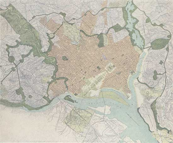 A map of additions to the District of Columbia park system, proposed by the United States Senate Park Commission in 1902. Existing parkland is in light green; proposed additions are in dark green. Pinkish-orange areas are developed areas of retail, office buildings, and housing.